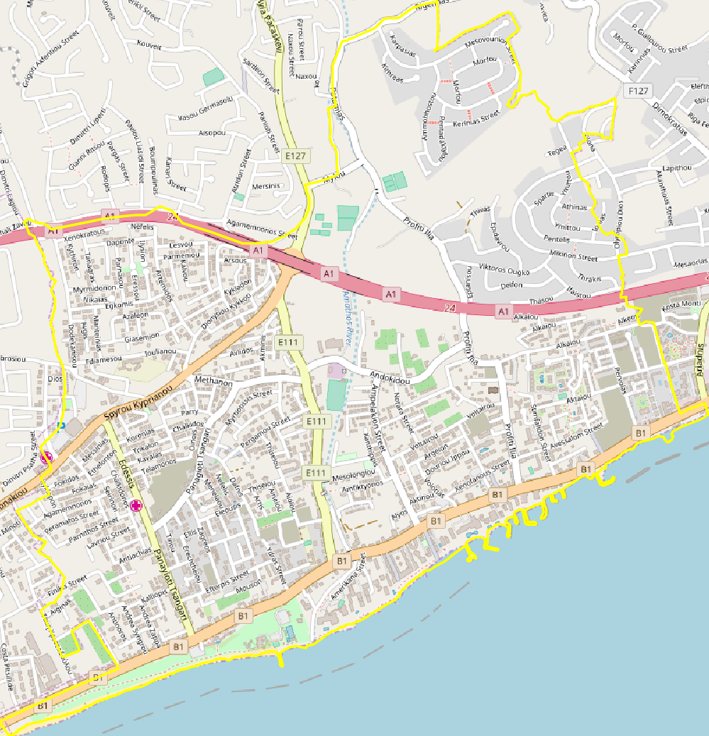 Map of Germasogeia River.